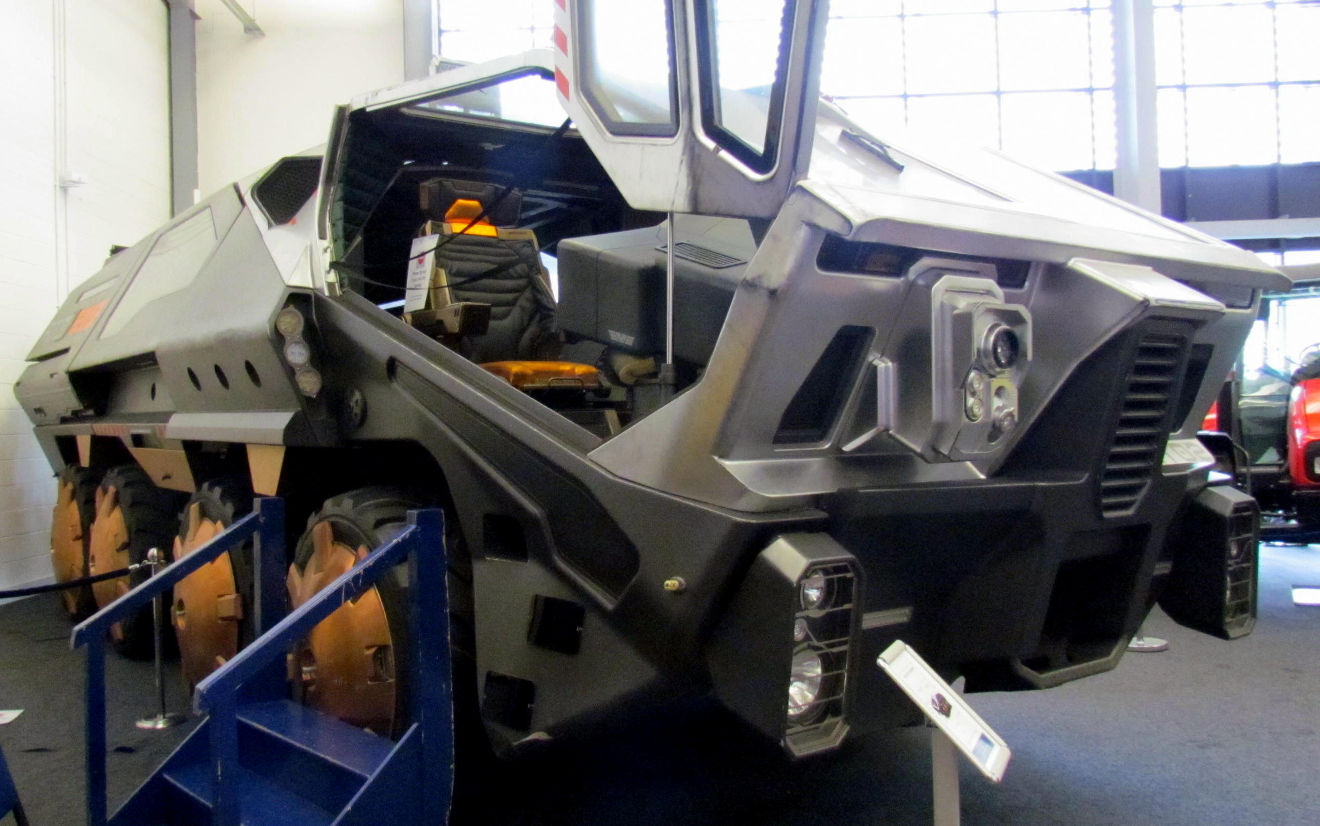 RT01 Transporter from the Movie "Prometheus" (2012) photographed at the Coventry Transport Museum